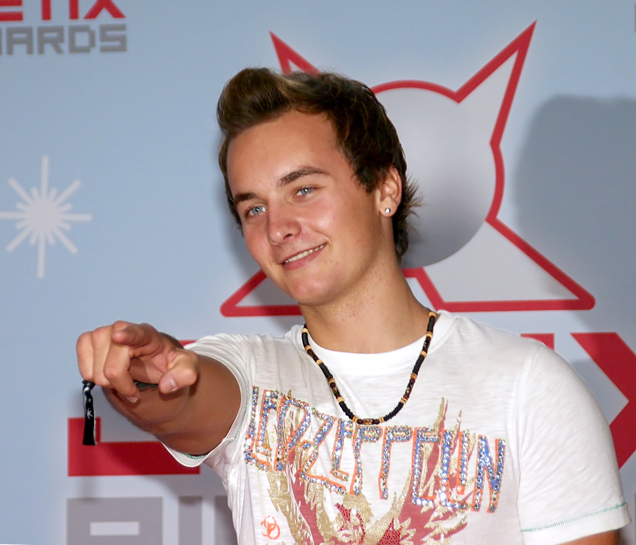 Martin Stosch during the conferment of the JETIX Award at the youth fair "YOU", Berlin